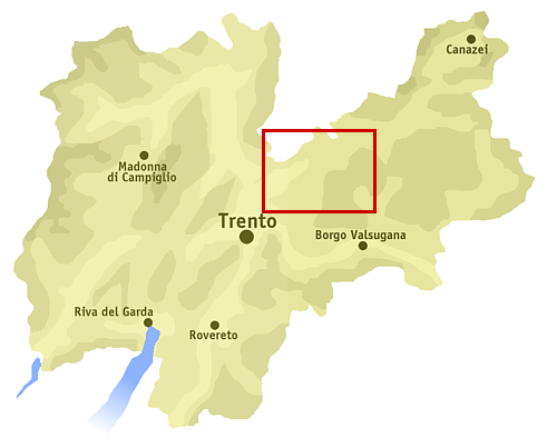 Position of the valley Val di Cembra